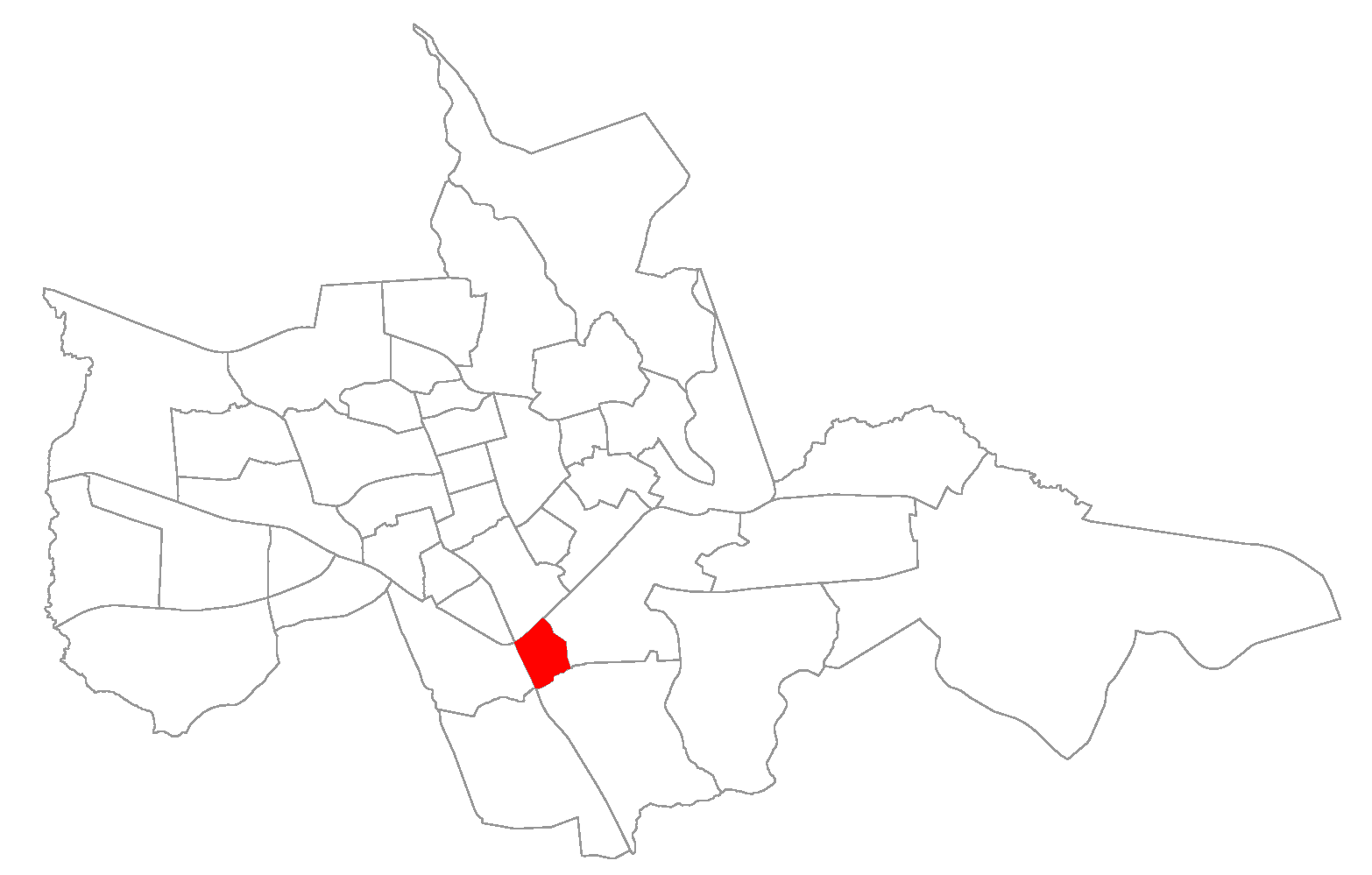 neighborhood/district of Santa Maria, Rio Grande do Sul